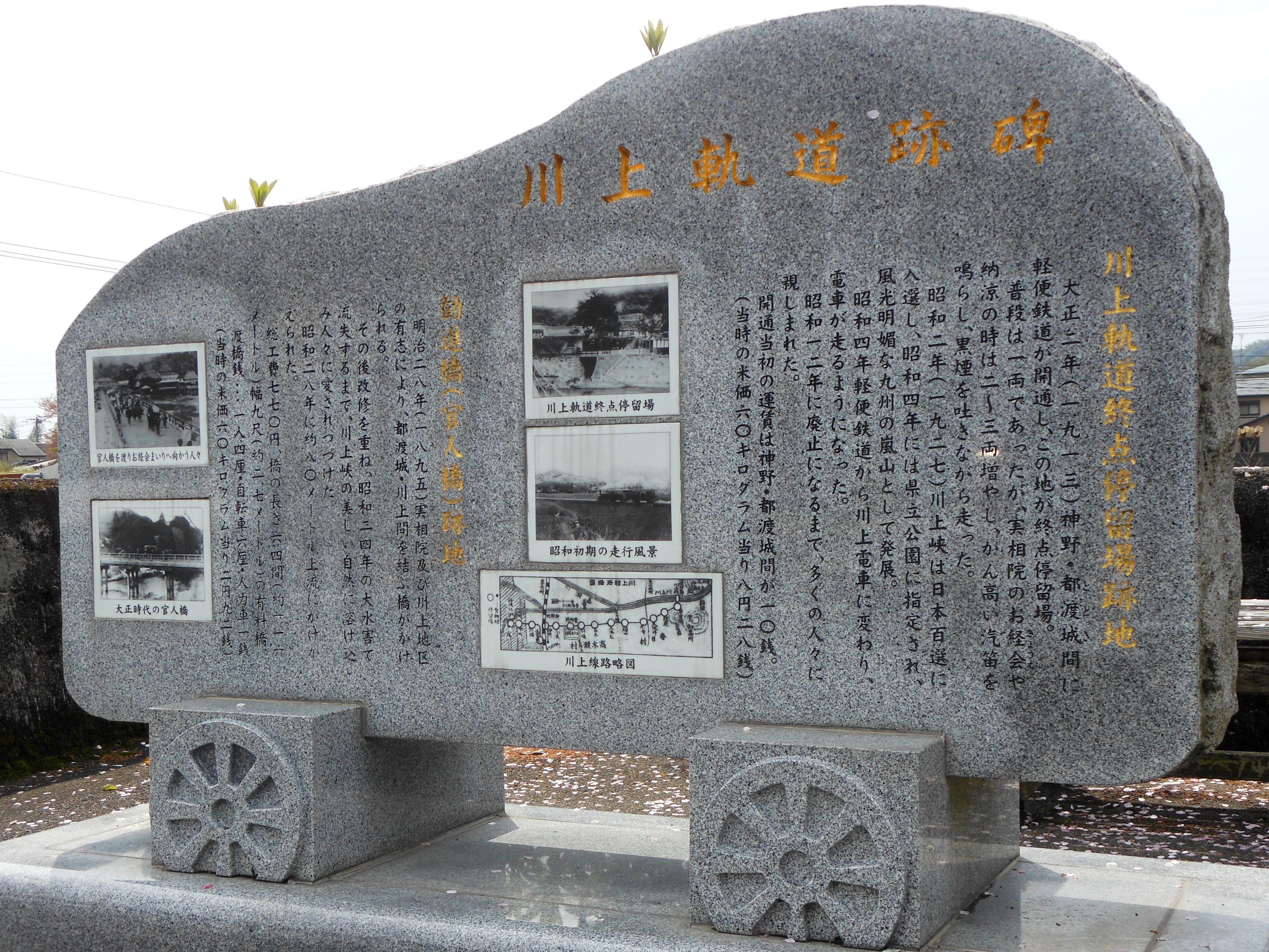 A monument for ruin of Saga Electric Railway (old Kawakami Rainway) at side of route 263 in Umeno, Yamato, Saga city.